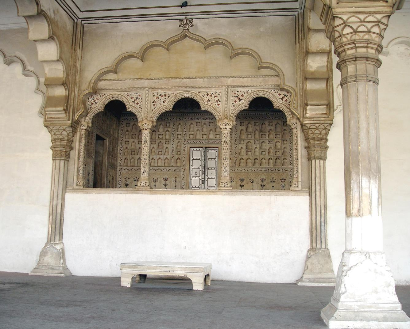 Photographed by Pratheepps (talk) Diwan-i-am (or Diwan-e-am in Google Maps) in the Agra Fort. Location: Coordinates 27.179063N 78.022555E